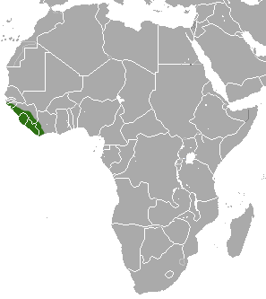 King Colobus (Colobus polykomos) range